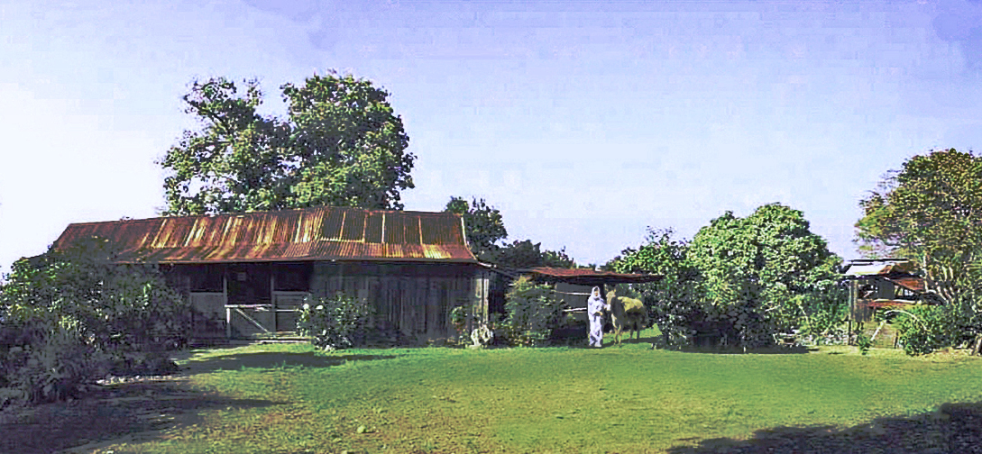 A panorama of the farmhouse — at the Kona Coffee Living History Farm. Of the Kona Historical Society — Kealakekua (Captain Cook), Kona district, on the Big Island of Hawaiʻi.